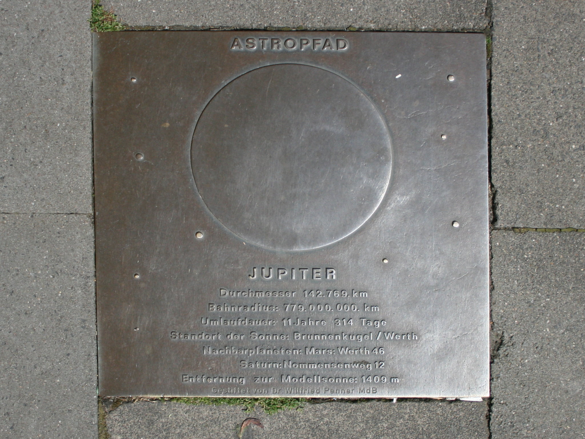 Astropfad Wuppertal: Jupiter